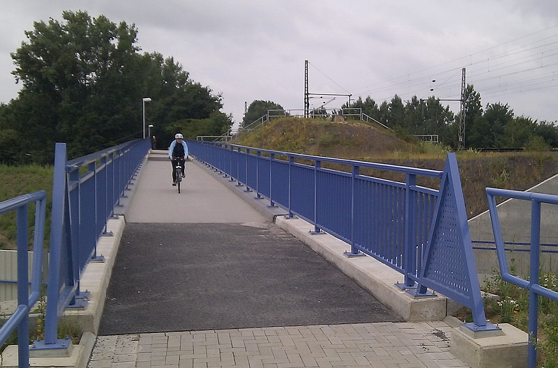 Part of the Ringgleis Braunschweig: Bridge over A391.